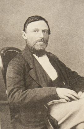 Karl Friedrich Mohr (1806–1879), German pharmacist